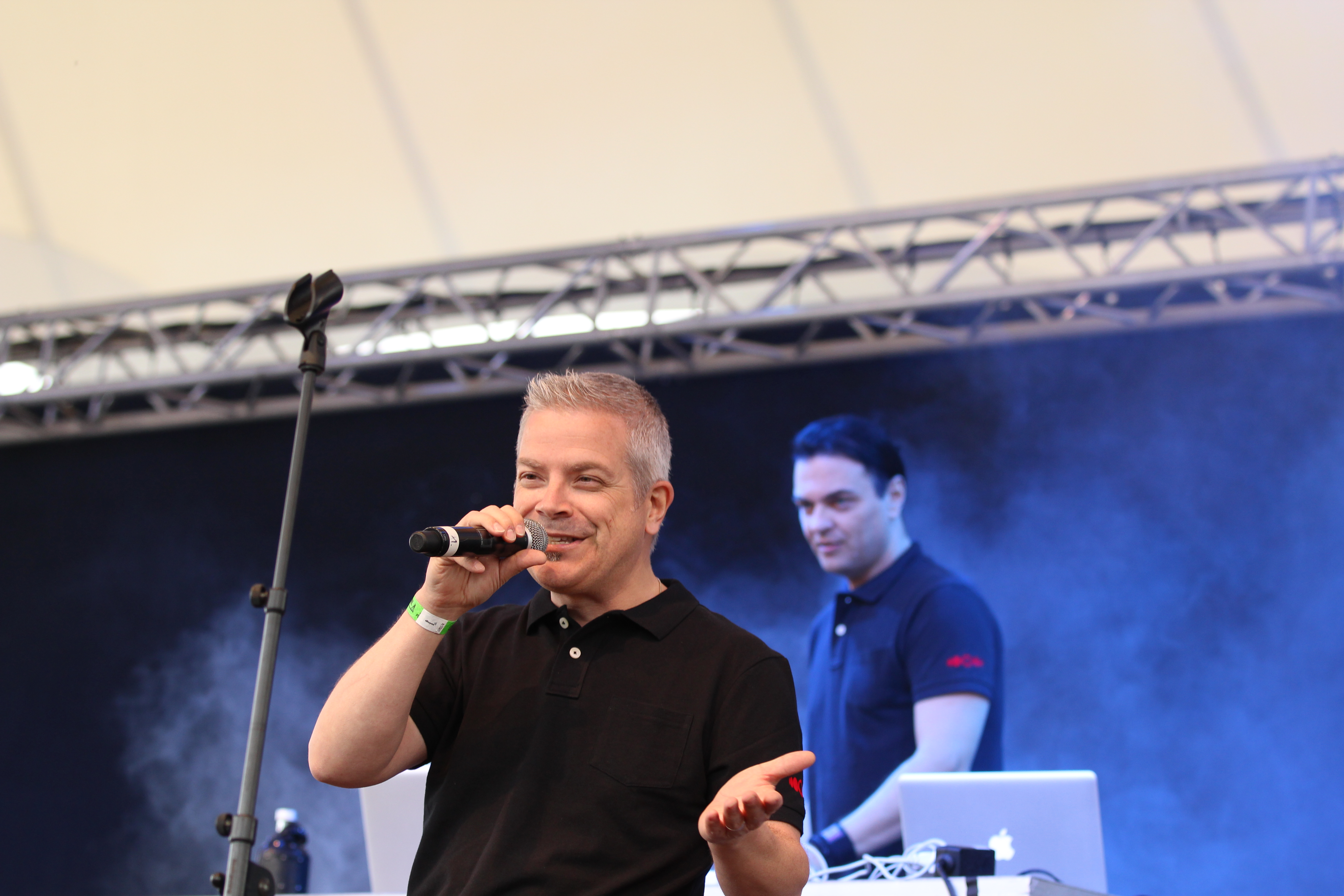 The Swiss-German Futurepop Band Namnambulu at the Blackfield Festival 2014 in Gelsenkirchen